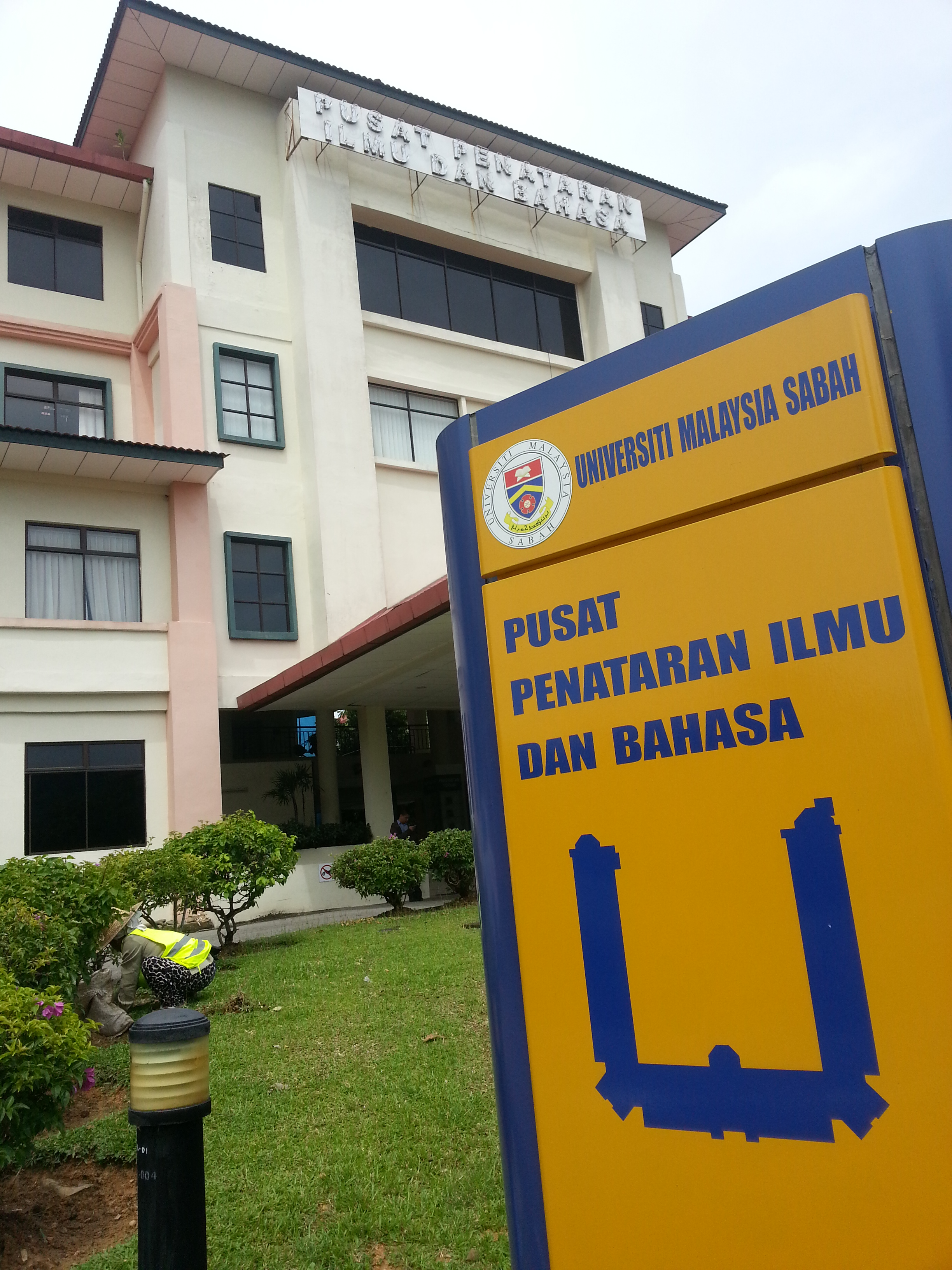 Centre for the Promotion of Knowledge and Language Learning